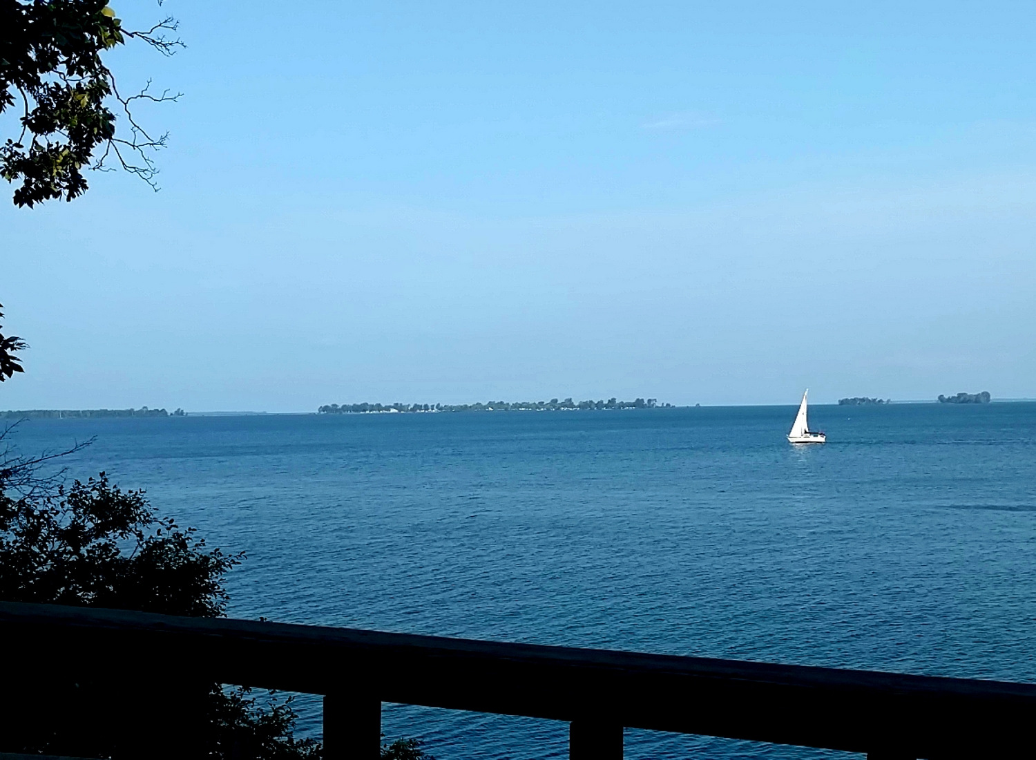 Association Island, Henderson Harbor, Jefferson County, New York